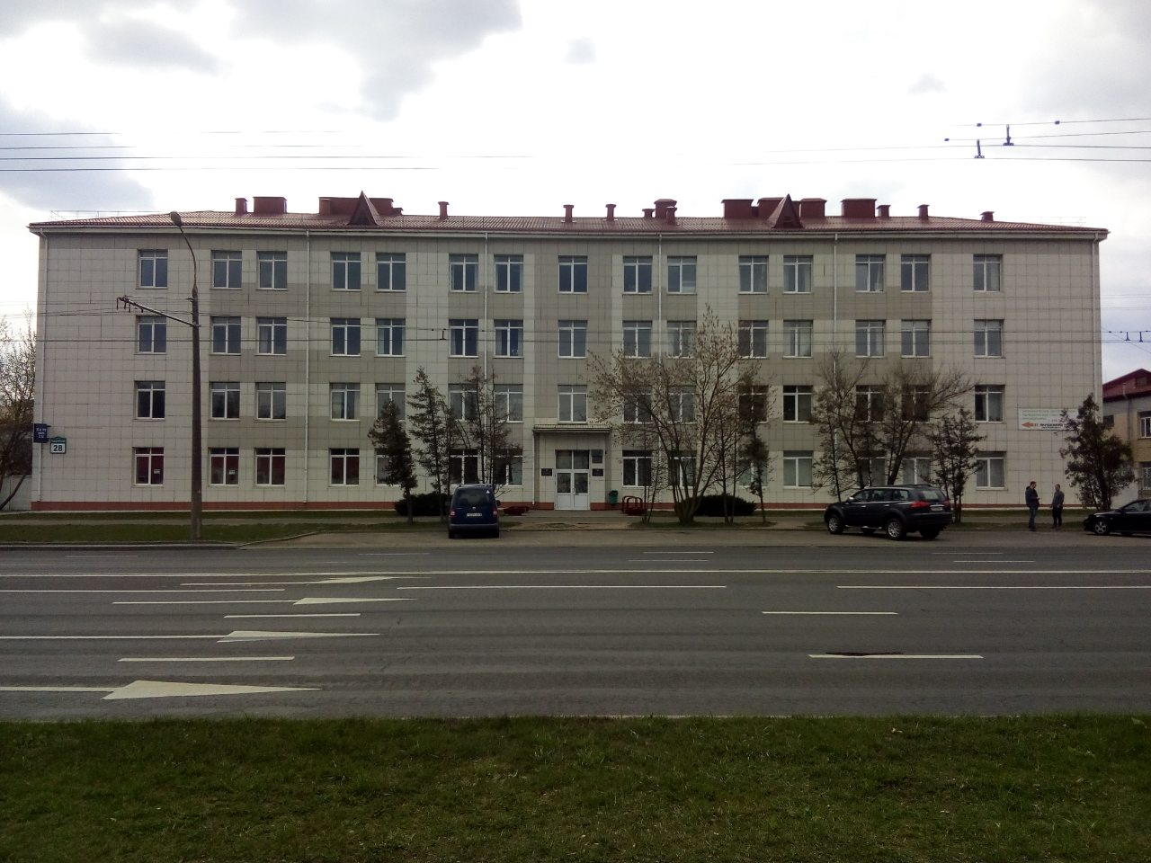 Institute of Physiology of the National Academy of Sciences of Belarus (28 Akademičnaja Street, Minsk; 20th of April, 2019)